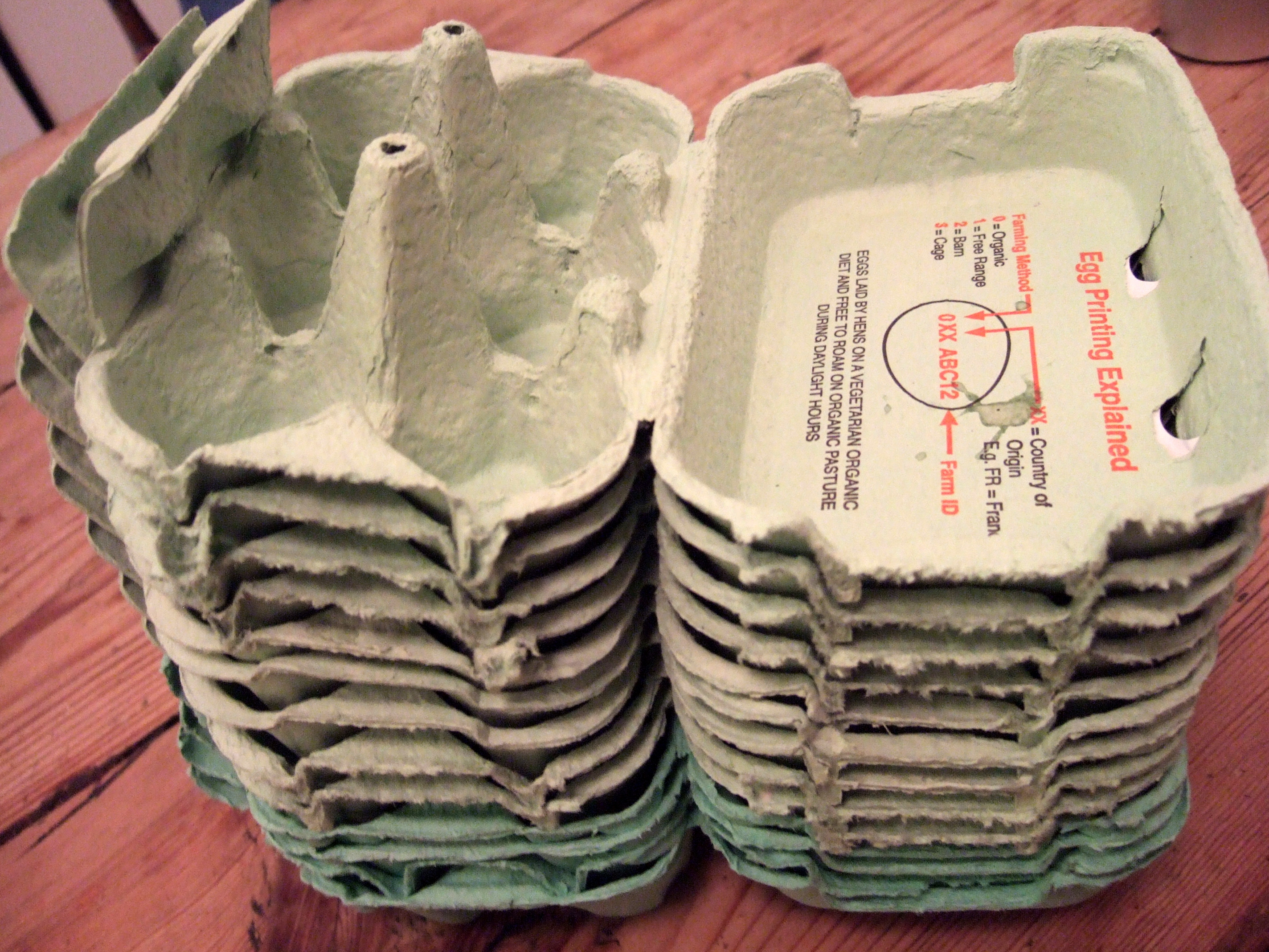 Stack of pulp egg cartons.